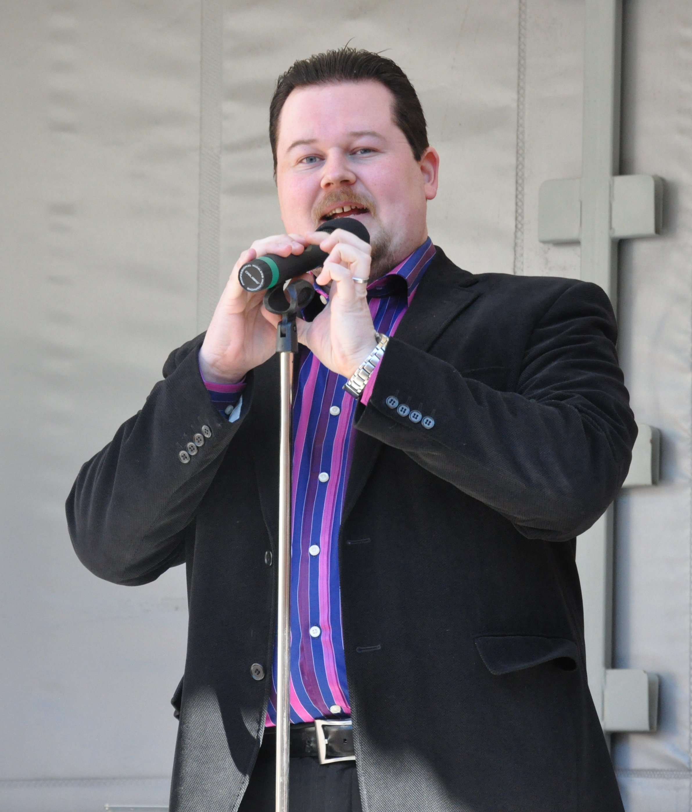 Finnish magician Pete Poskiparta on May Day 2009 in Turku, Finland.